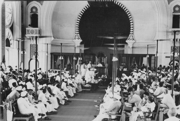 A view of the Legislative Assembly of Madras Presidency, British India in 1937. The location is Senate House at the Chepauk campus of Madras University